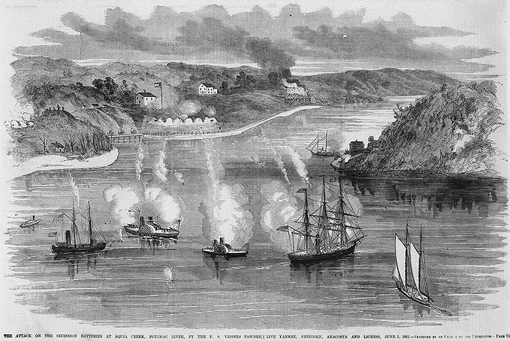 "The Attack on the Secession Batteries at Aquia Creek, Potomac River, by the U.S. Vessels Pawnee, Live Yankee, Freeborn, Anacostia and Lioness, June 1, 1861." Line engraving, based on a sketch by an "Officer of the Expedition" published in "Frank Leslie's Illustrated Newspaper", 1861. Ships depicted are (from left to right-center, in the foreground): U.S. Tug Resolute (called "Lioness" in the original text), USS Anacostia, USS Thomas Freeborn, USS Yankee (called "Live Yankee" in the original text) and USS Pawnee. A two-masted schooner is in the right foreground.